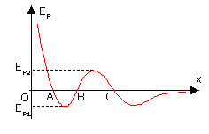 To show potential barrier and well